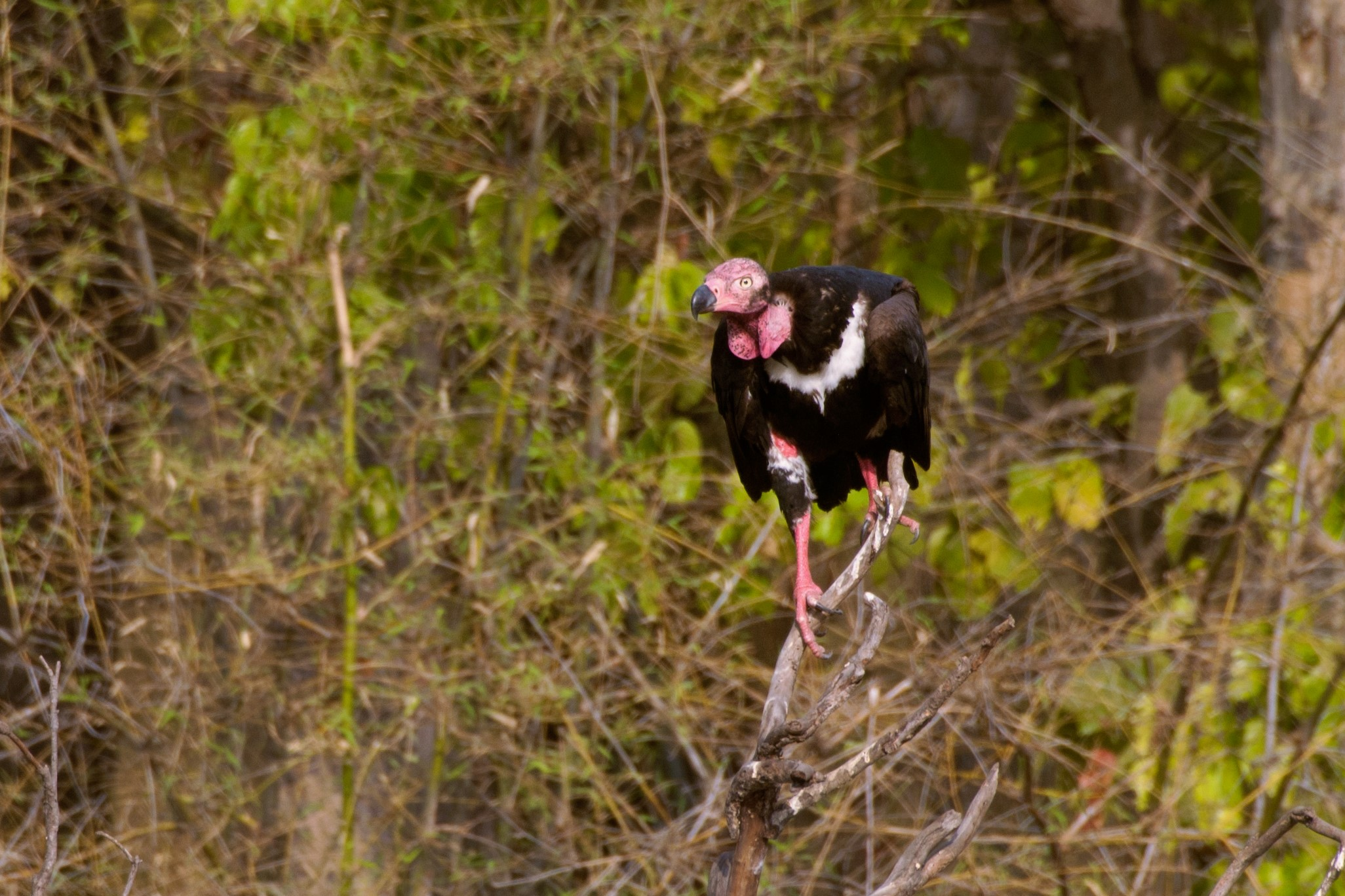 Red Headed Vulture Sarcogyps calvus from Bandhavgarh.